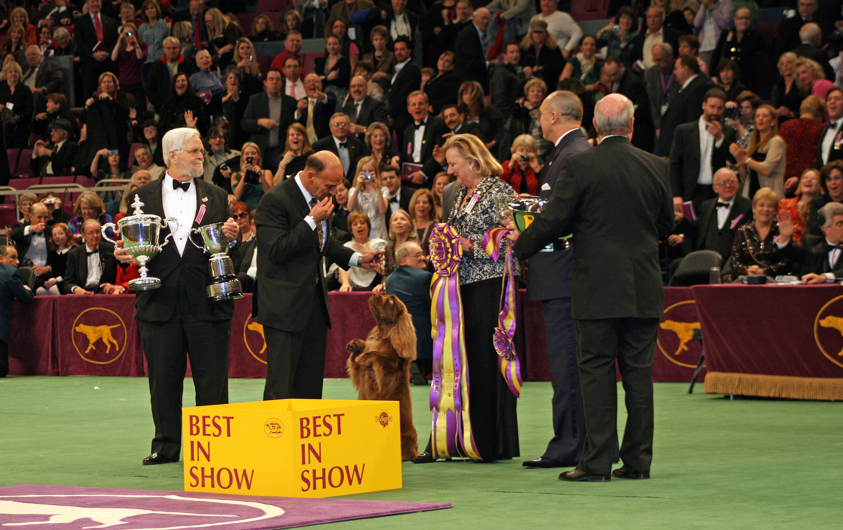 End of the night at Westminster when Stump the Sussex Spaniel won Best in Show. 2/2009